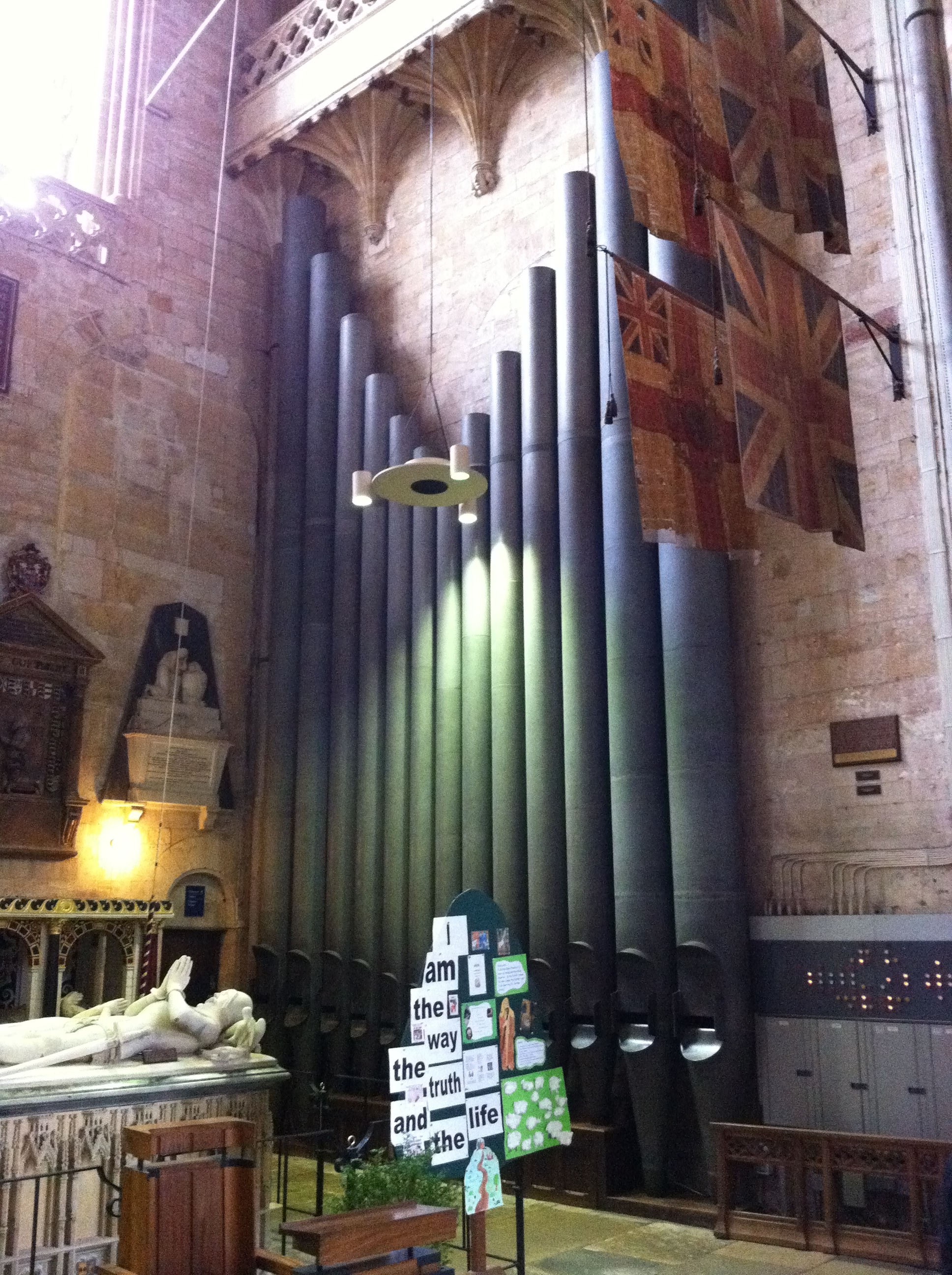 Organ pedal pipes in Exeter Cathedral